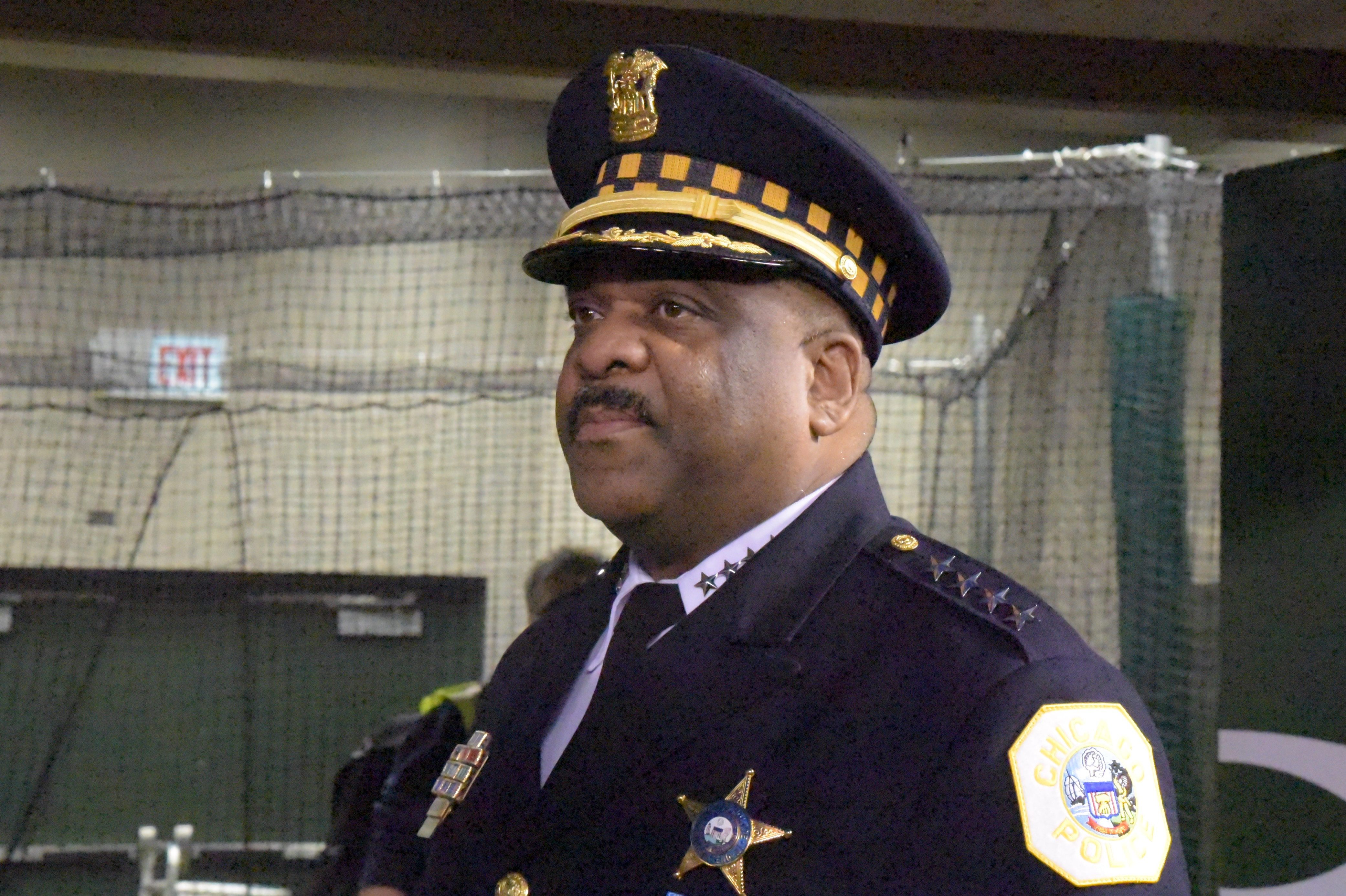 Superintendent Eddie Johnson at Wrigley Field before Game 3 of the 2016 World Series between the Chicago Cubs and the Cleveland Indians.